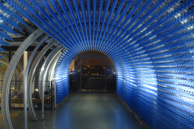 Preservation is life - Les sons de ma vie, Floor 6 Night view. Location : CENTRE POMPIDOU, over the six floors of the museum, PARIS FRANCE. Image taken from the installation.